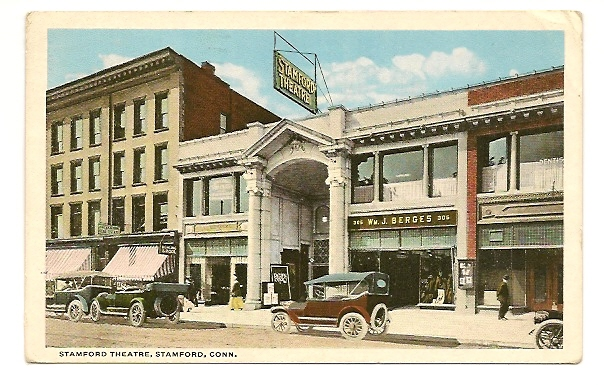 Postcard picture: Stamford Theatre in the Downtown section of Stamford, postmarked in 1919; store Web page shows address side with "1919" clearly in postmark; store Web page states: "post card sent 1919. Tiled: Stamford Theatre, Stamford Conn. Imprint on back is: Published by Morris Berman New Haven, Conn. Made In U.S.A."